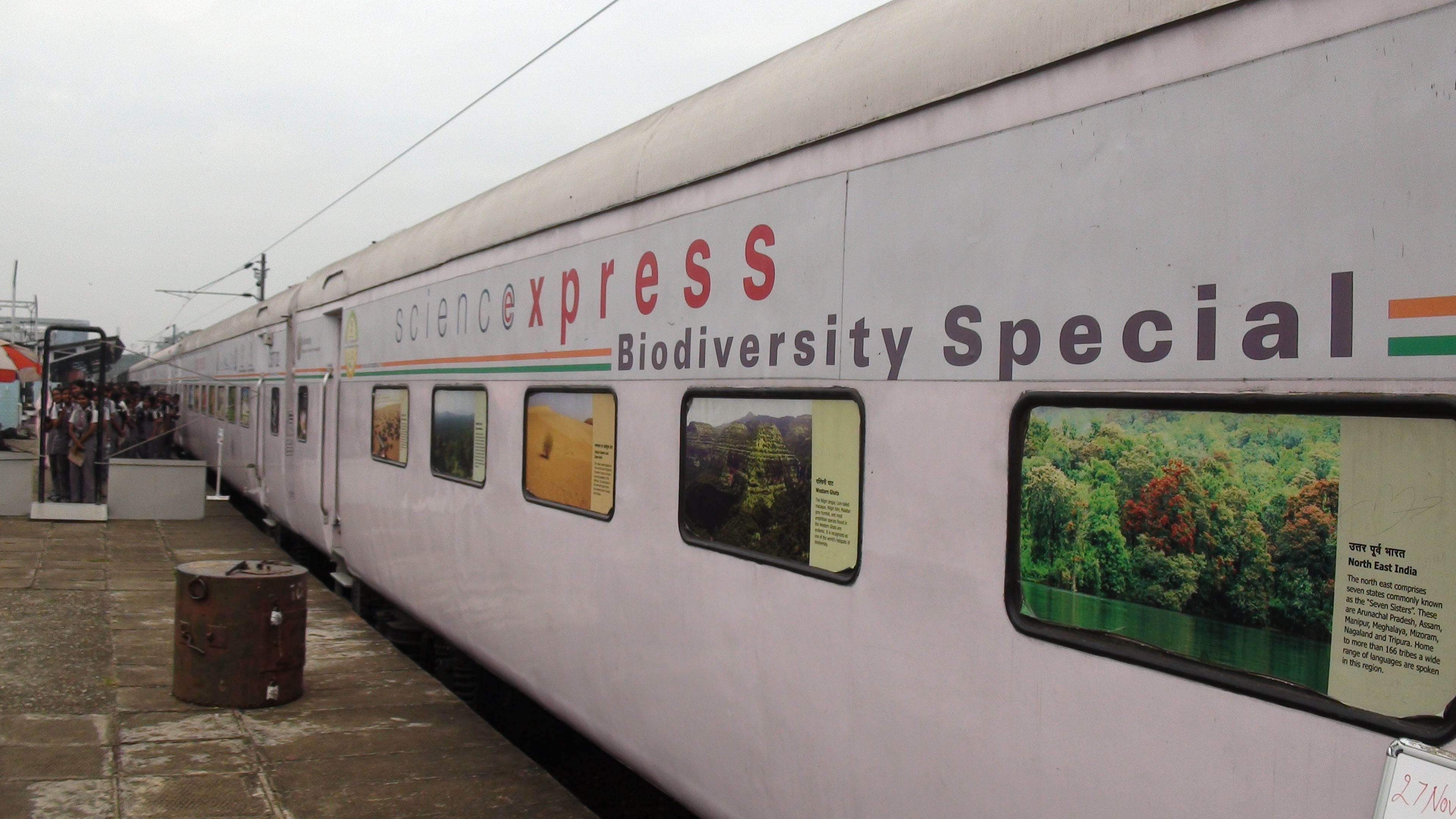 science express bio diversity special